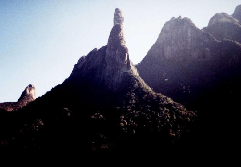 Finger of God, a mountain in Brazil